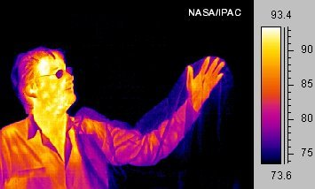 Much of a person's energy is radiated away in the form of infrared energy. Some materials are transparent to infrared light, while opaque to visible light (note the plastic bag). Other materials are transparent to visible light, while opaque or reflective to the infrared (note the man's glasses).